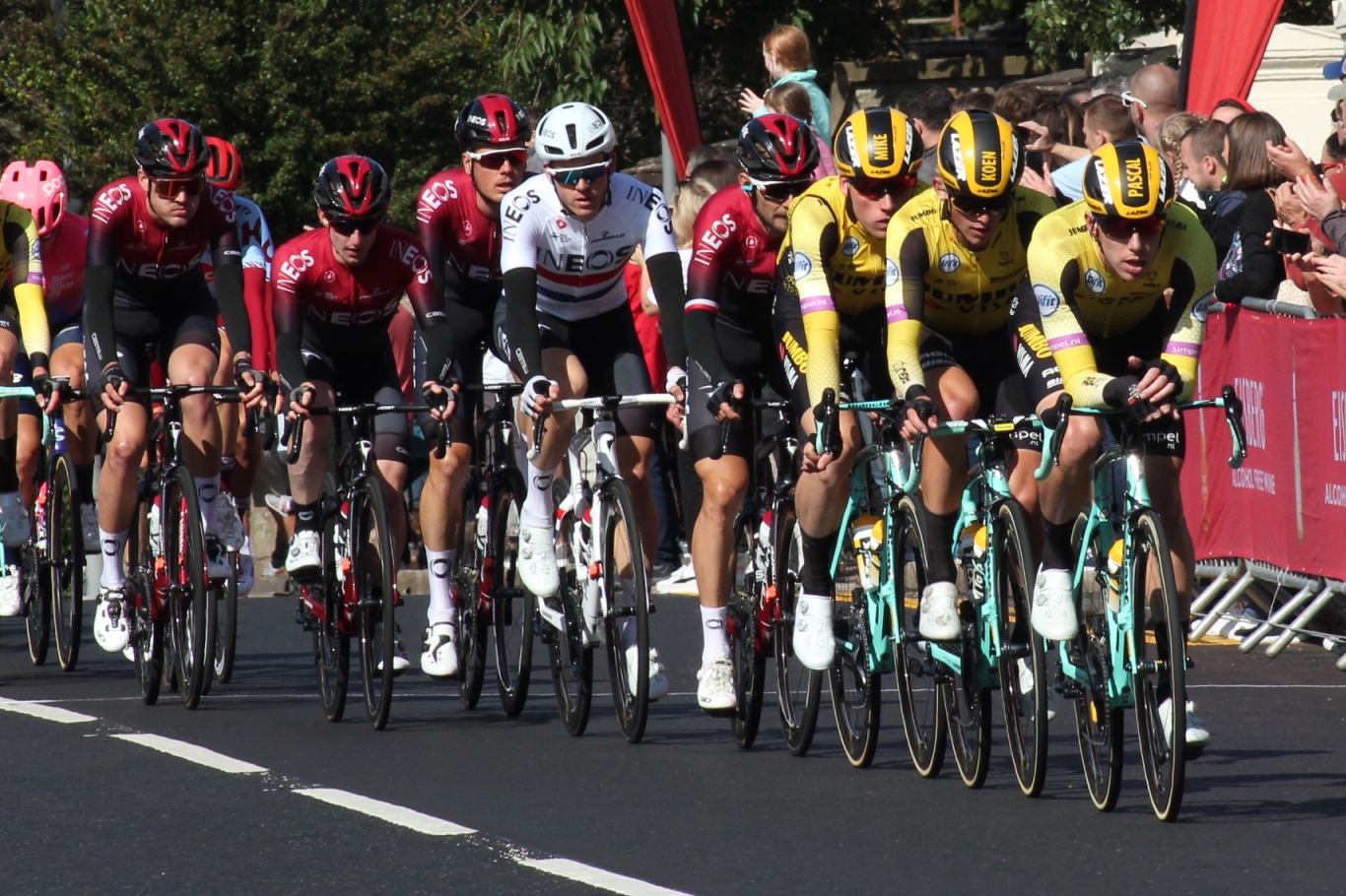 Riders from the Jumbo-Visma and Ineos teams head the peloton as it passes through Kilmarnock on the first stage of the 2019 Tour of Britain.